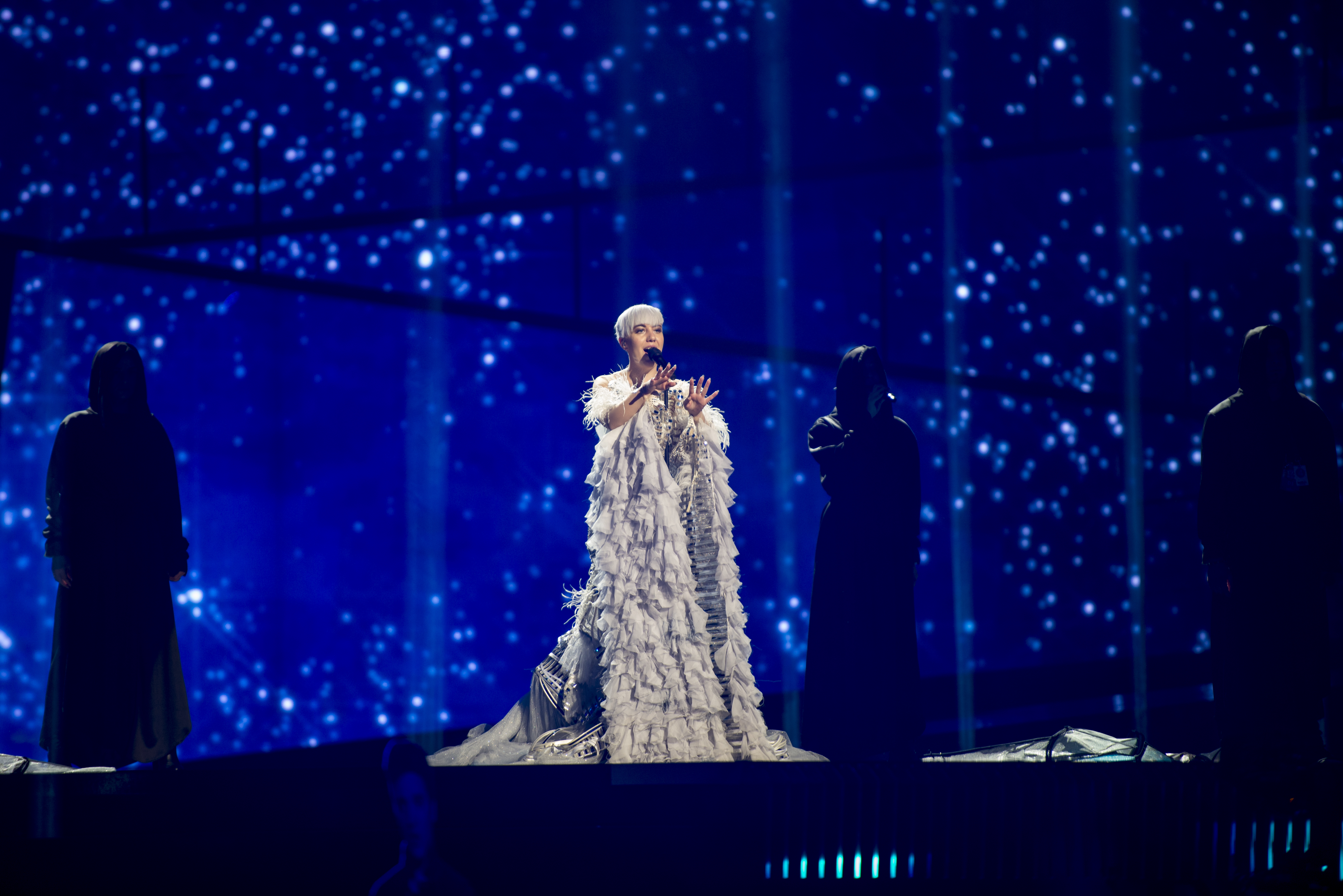 Nina Kraljić representing Croatia with the song "Lighthouse" during a rehearsal before the first semi final of the Eurovision Song Contest 2016 in Stockholm. (Help translate this text)